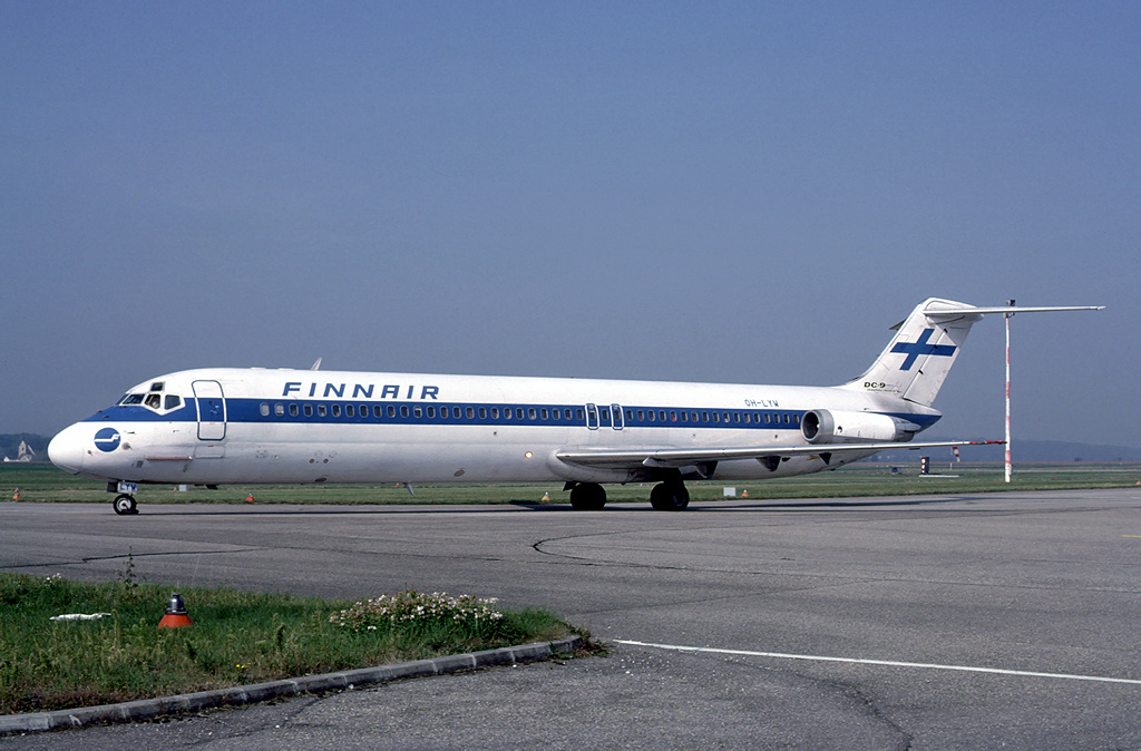 A Douglas DC-9-51 aircraft (OH-LYW) of Finnair at EuroAirport Basel-Mulhouse-Freiburg (LFSB)